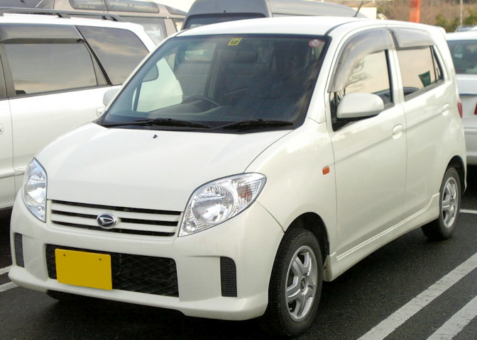 Daihatsu MAX